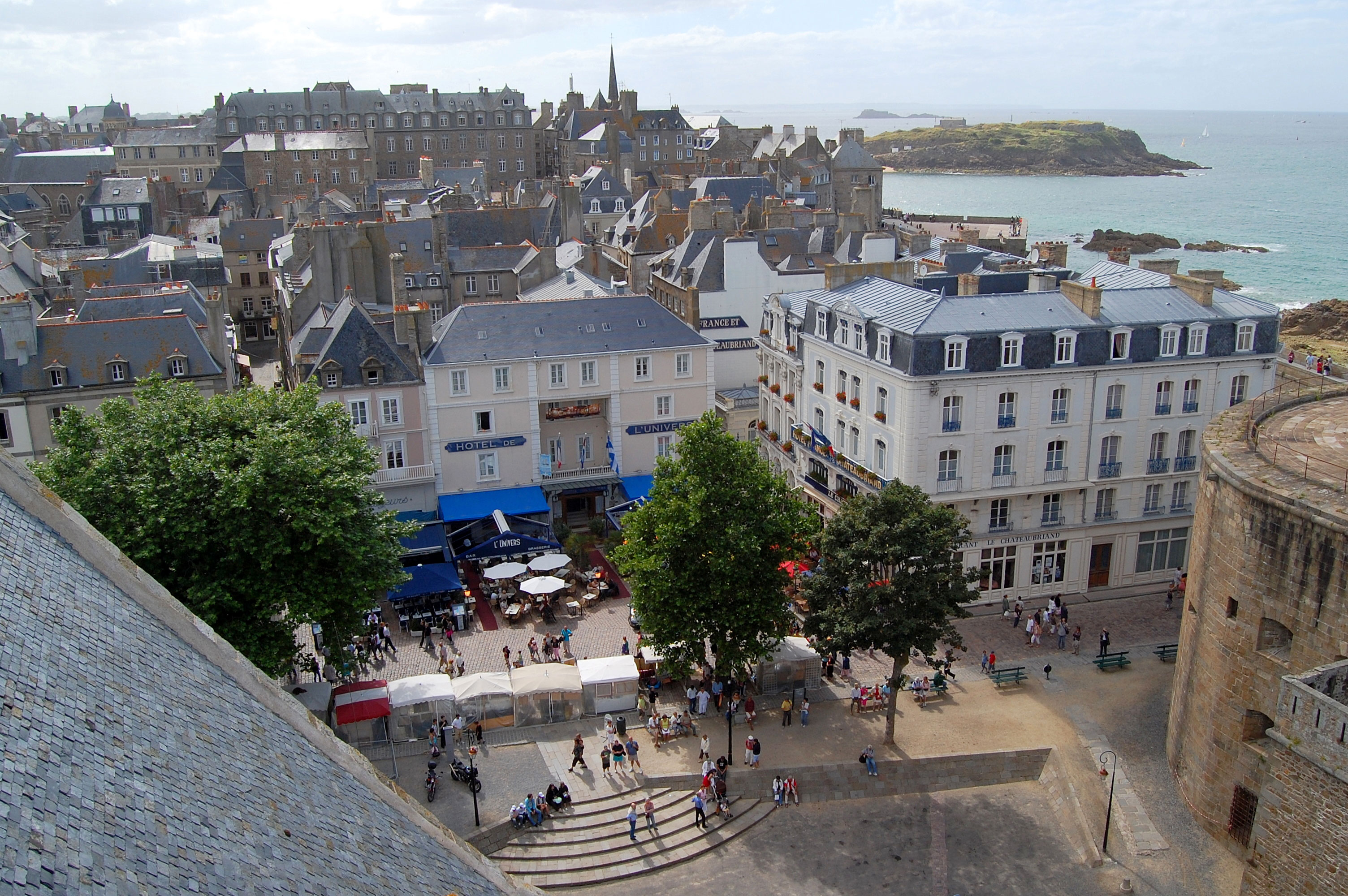 The walled city of Saint Malo, Brittany, France